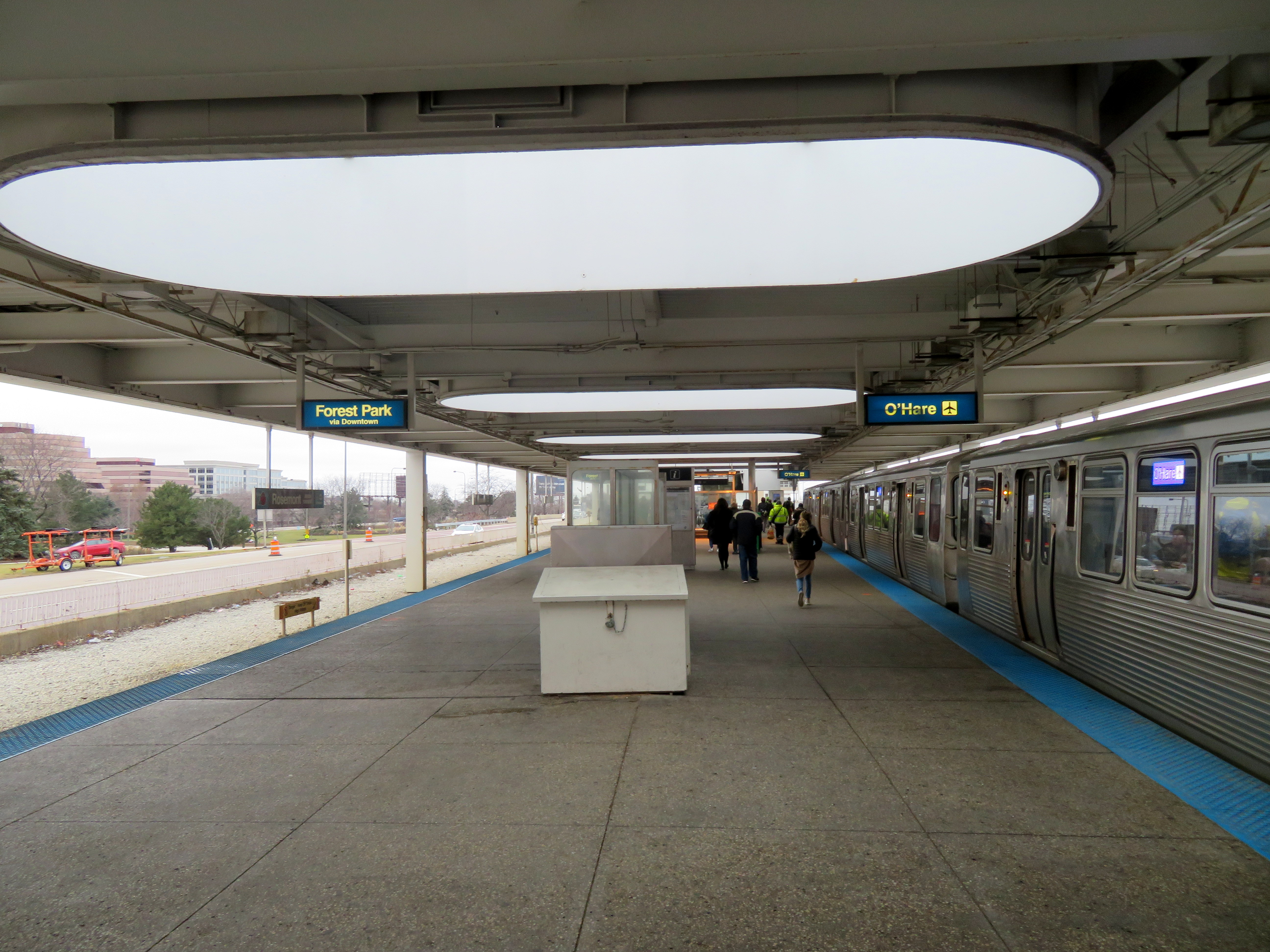 An O'Hare-bound train at Rosemont station in December 2018